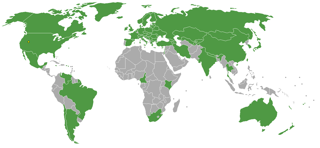 2002 winter olympics participants, as listed on w:2002 Winter Olympics (Participating Nations). Host city marked with yellow square (Salt Lake City)